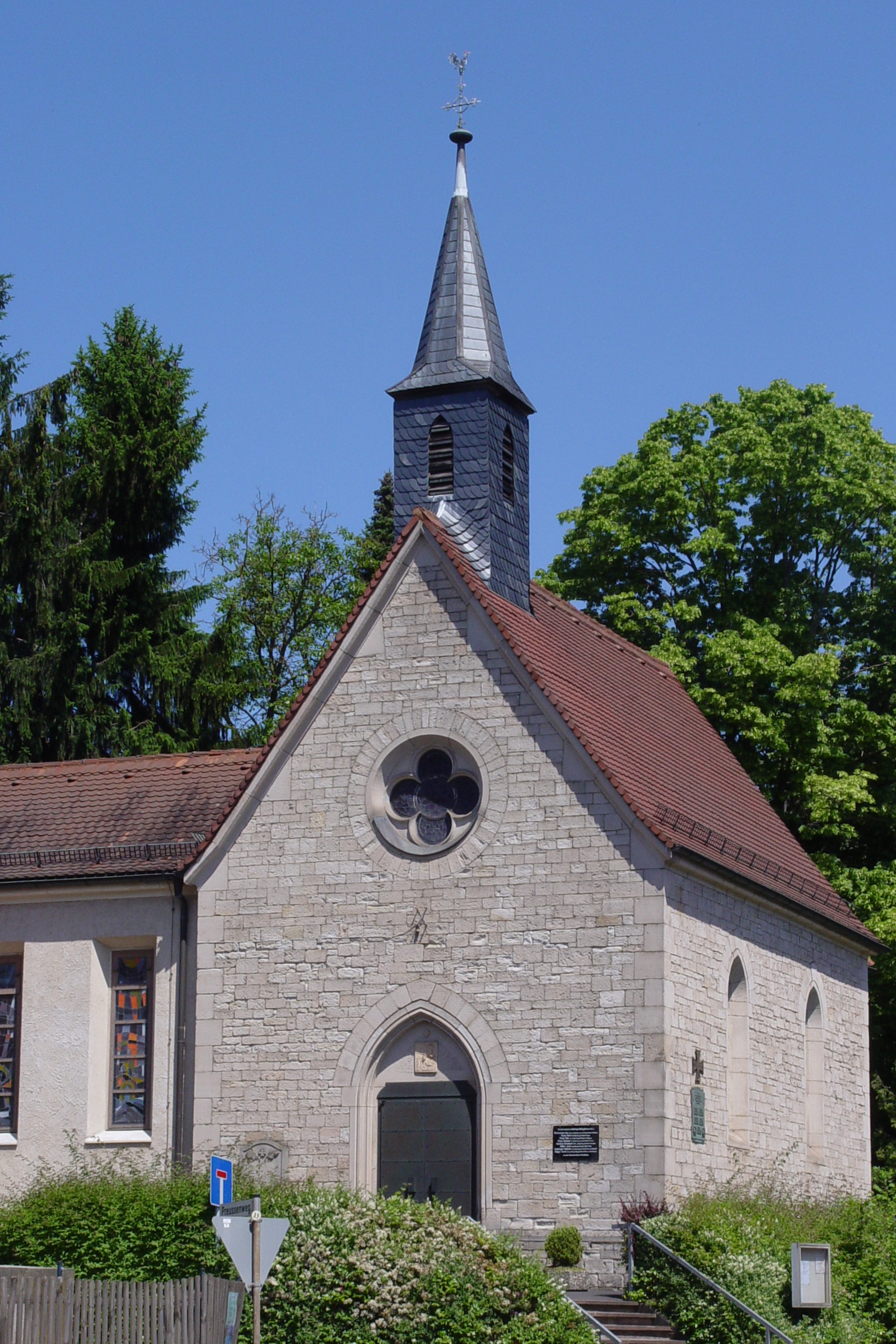 Laufach-Frohnhofen, sacred heart chapel from 1901This is a photograph of an architectural monument.